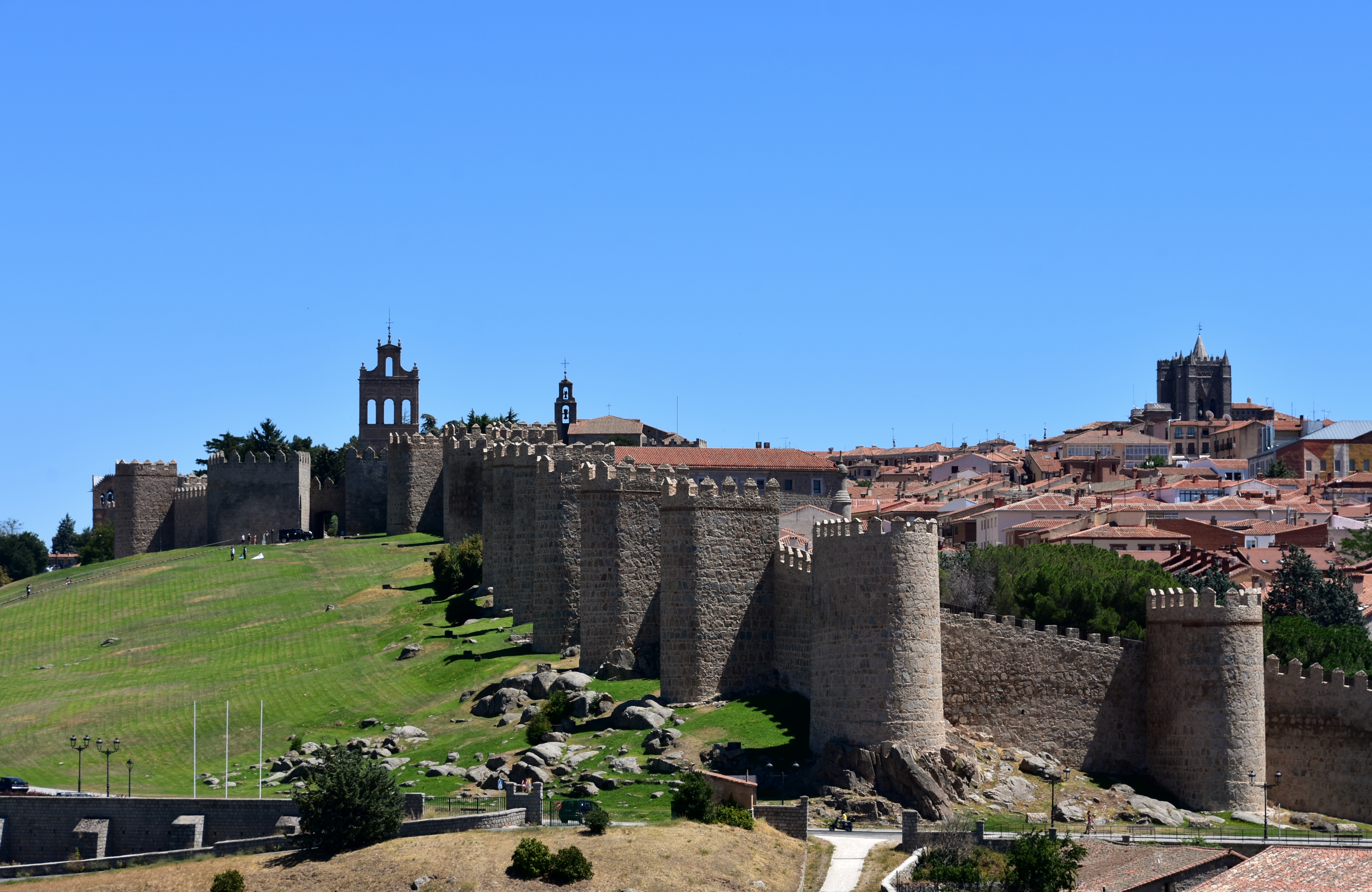 Avila with its 11th - 14th cent. walls (4)